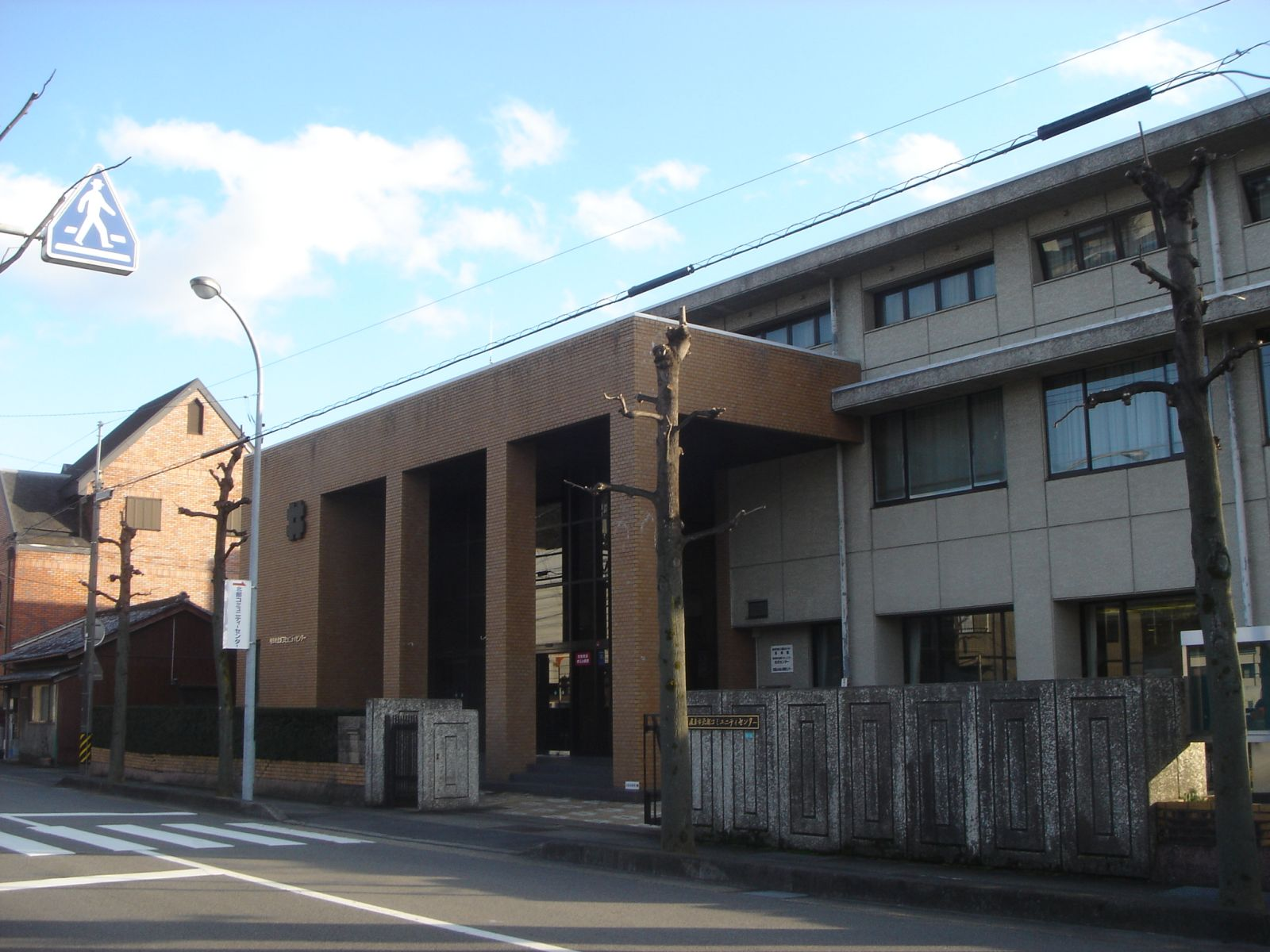 Gifu City Hokubu Community Center（岐阜市北部コミュニティセンター）,Gifu,Gifu,Japan(岐阜県岐阜市八代1丁目)で撮影。